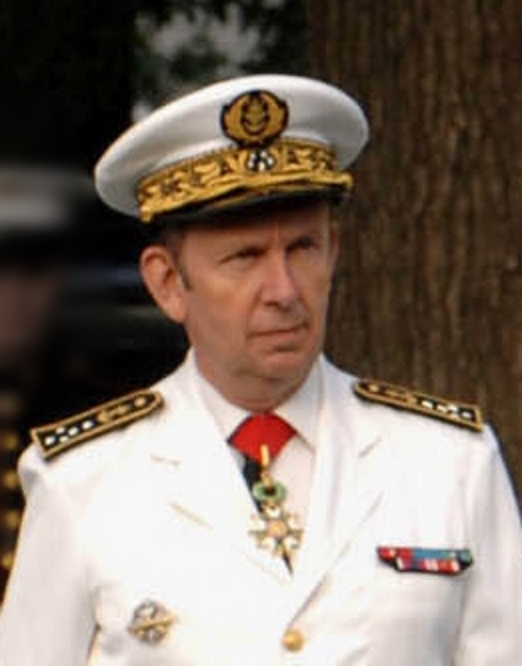 Admiral Pierre-François Forissier, Chief of Staff of the French Navy, during a visit in the United States.